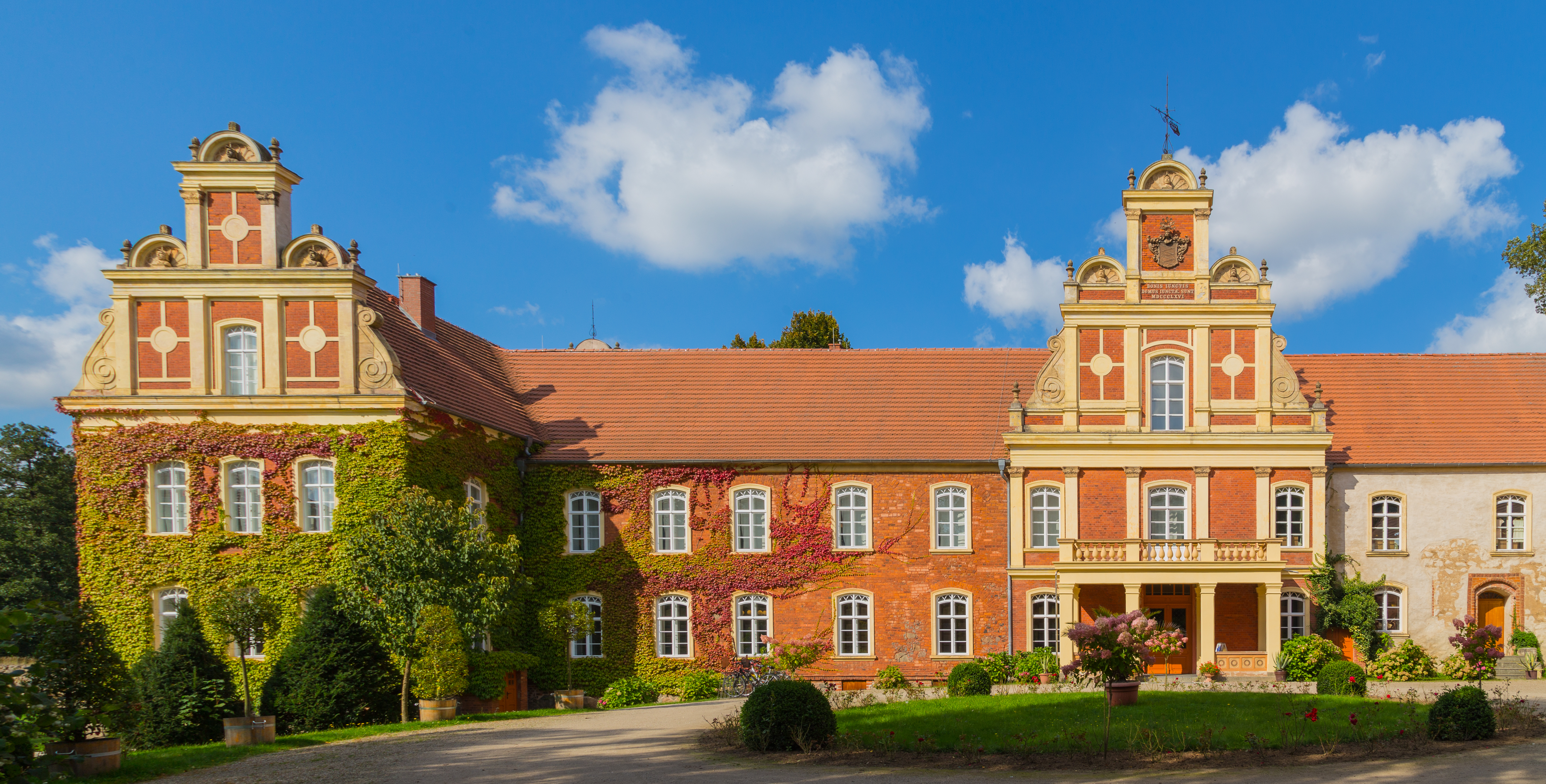 Meyenburg Castle (Schloss Meyenburg) in Meyenburg, Landkreis Prignitz, Brandenburg, Germany.